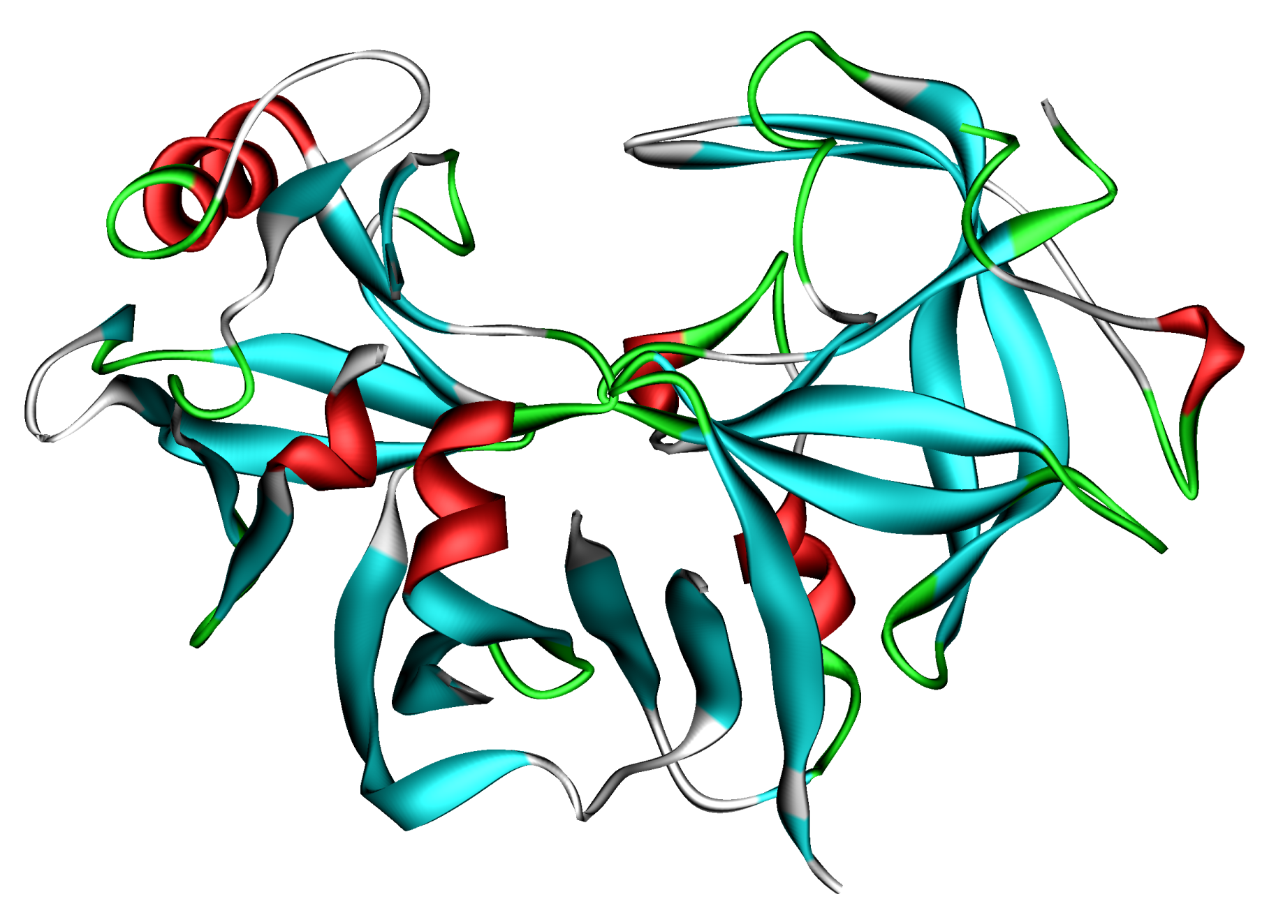 3d ribbon model of renin dimer after PDB 2REN. Ref.: A.R.Sielecki et al. (1989). Structure of recombinant human renin, a target for cardiovascular-active drugs, at 2.5 A resolution.. Science, 243, 1346-1351. PMID 2493678